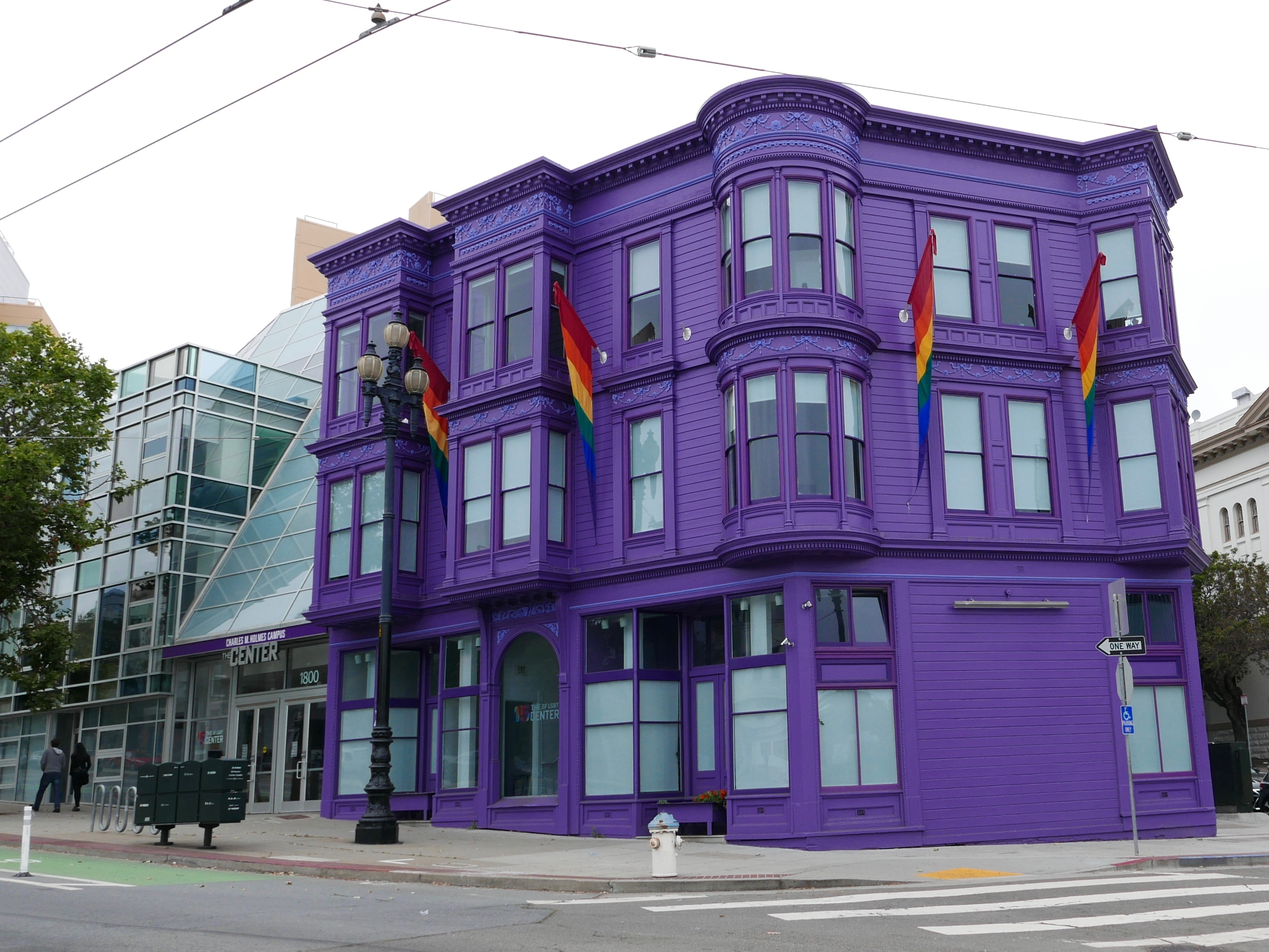 The Carmel Fallon Building is on the list of San Francisco Designated Landmarks. It is part of the San Francisco LGBT Community Center.